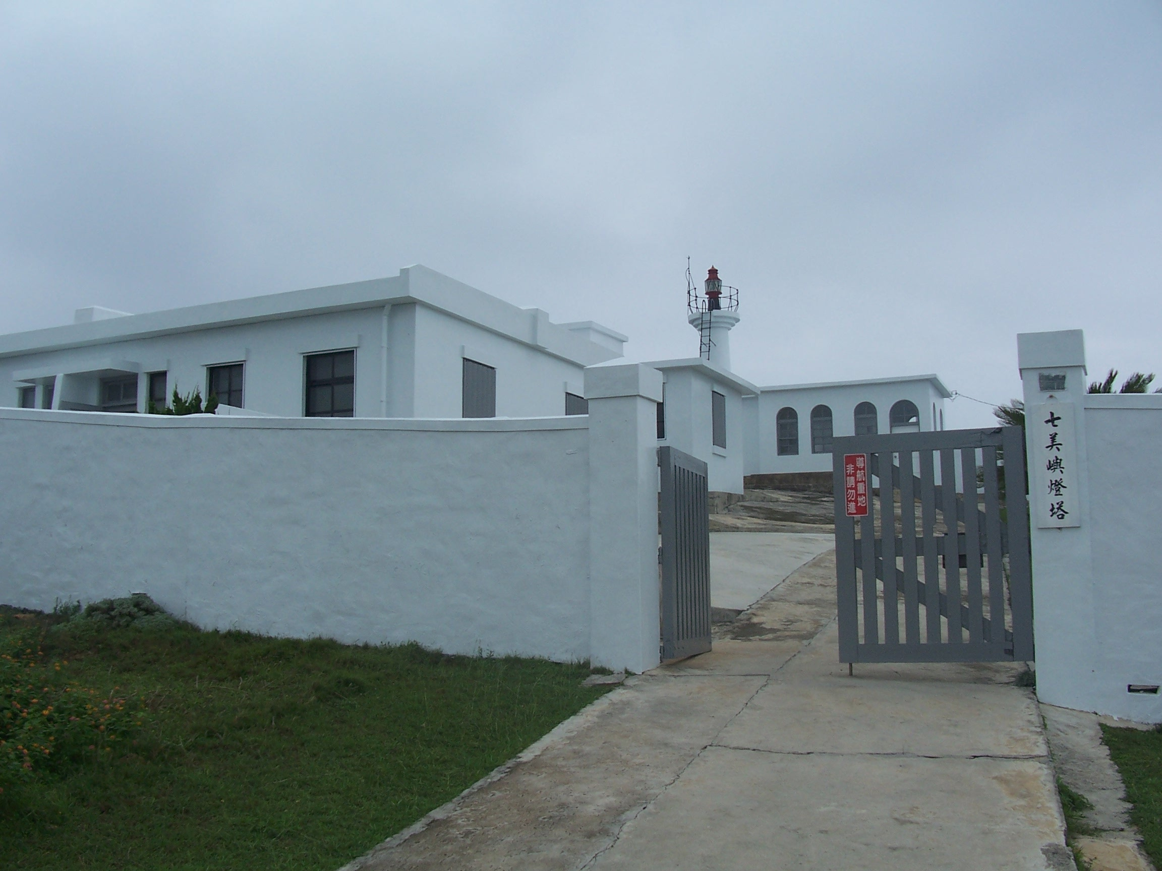 Ci-mei Lighthouse, in Ci-mei Township, Peng-hu County, Taiwan, R.O.C.